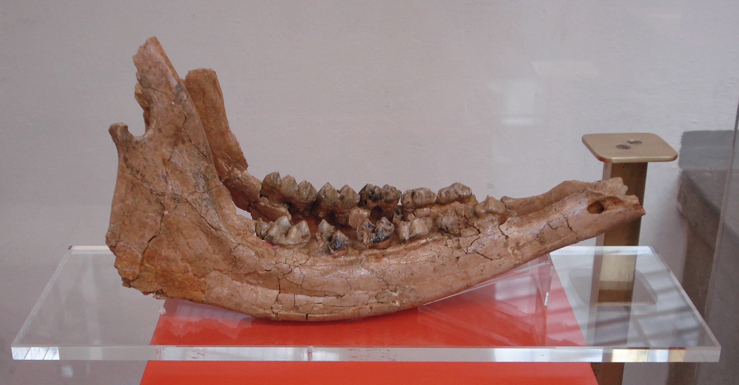 fossil of germanomeryx